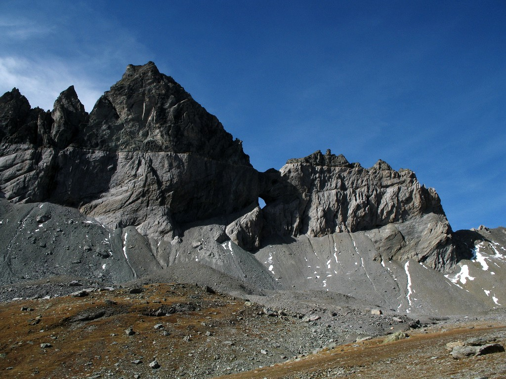 Martinsloch (“Martin’s hole”) enclosed by greyish limestone which is overlain by dark grey peak-forming conglomerate (so-called Verrucano) at the Tschingelhörner (ridge between Piz Segnas and Piz Grisch, Glarus Alps, eastern Switzerland; viewing direction is to the west). The Verrucano (Permian) is geologically older than the limestone (Upper Jurassic) and has been thrusted onto it. The well visible line dividing the two rock units is known as the Glarus Main Thrust.